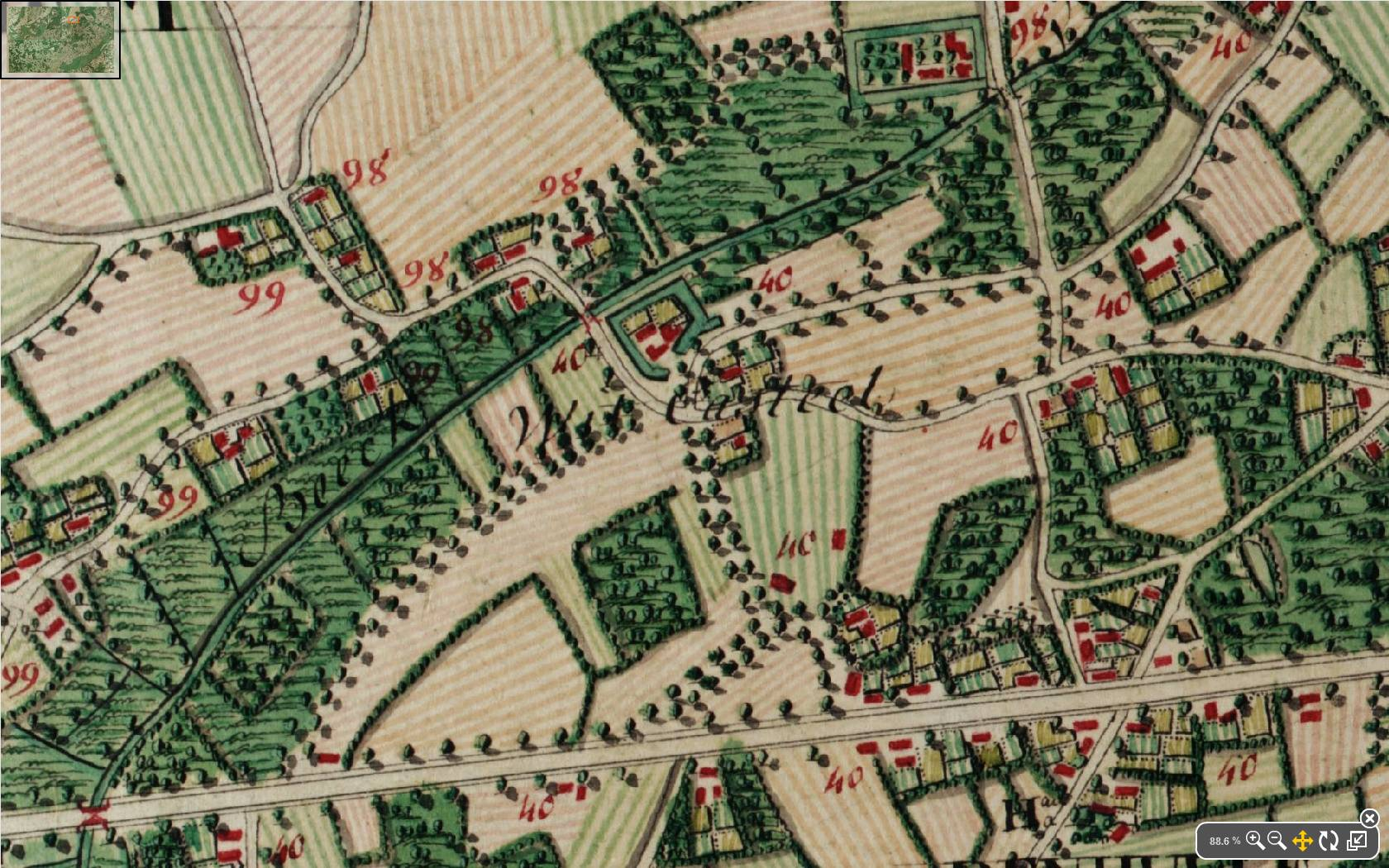 Kasteel_Borluut,_Ghent,_Belgium.jpg